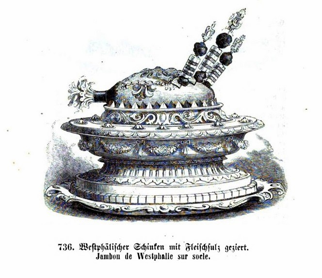 Westphalian ham with paper manchette and attelets